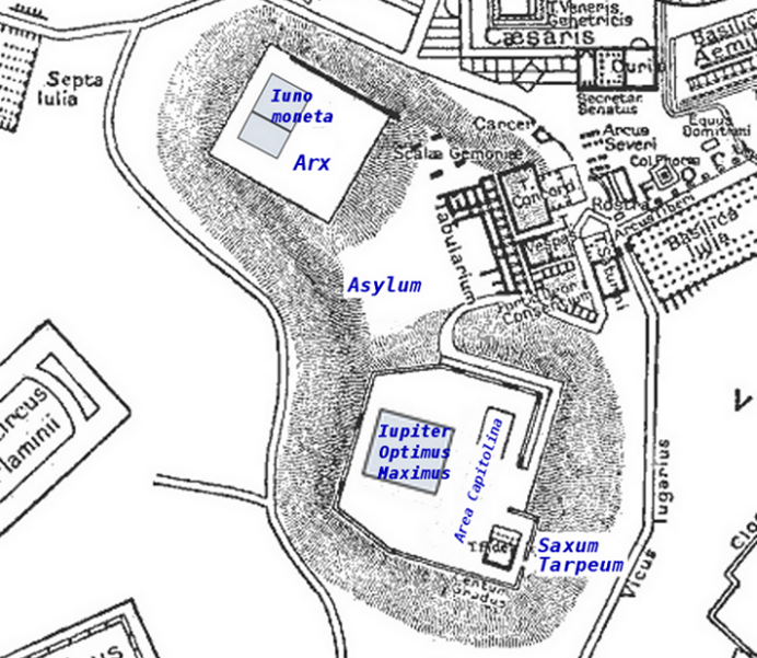 map of the Capitoline hill